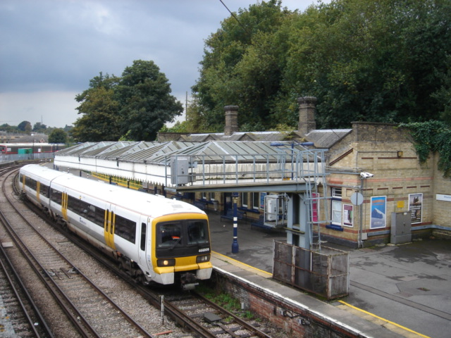 View of the northbound platform from the footbridge at Maidstone West railway station, with a Strood train waiting. Photographed on en:29 September en:2007.